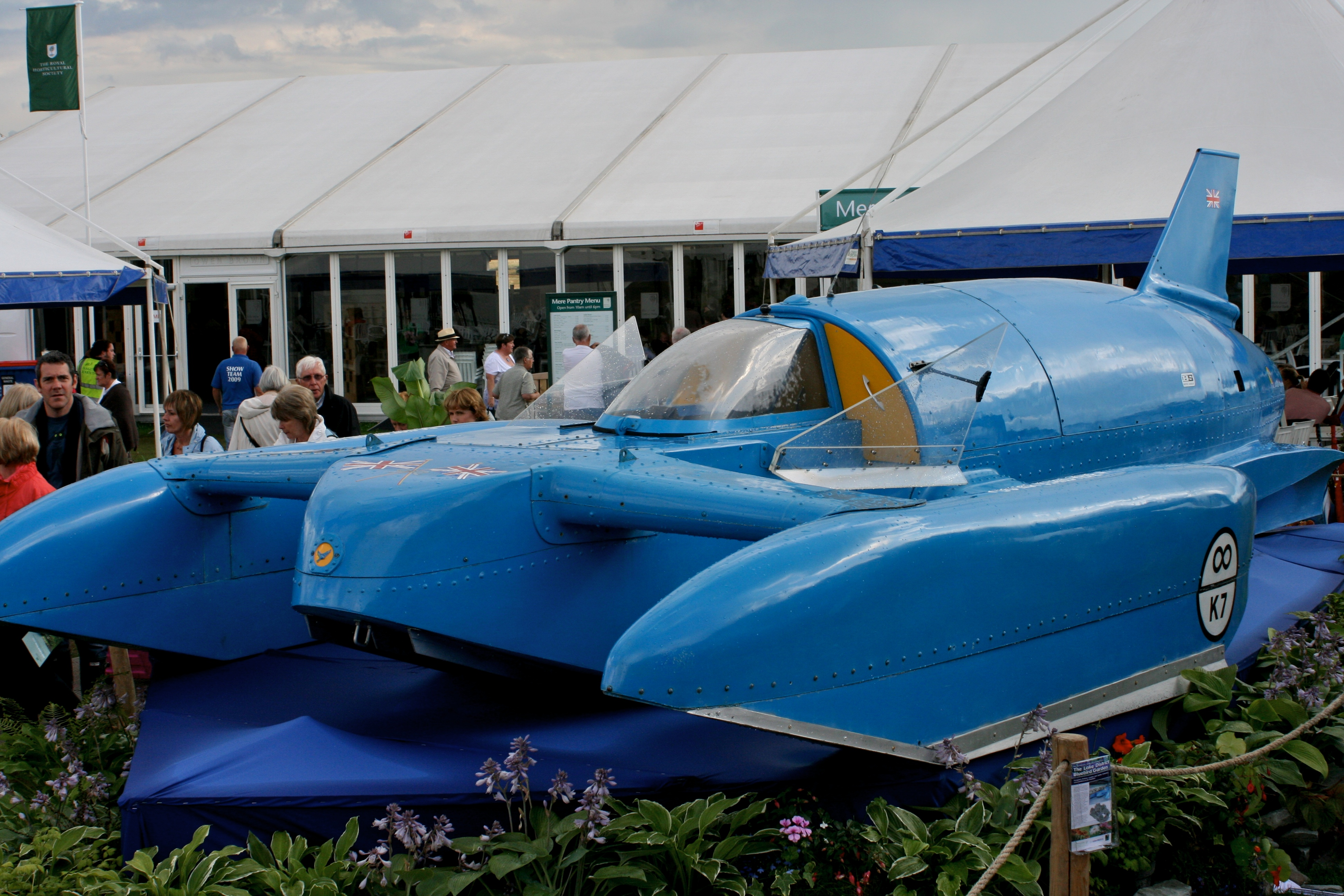 Replica of the Campbell Bluebird K7. Taken during Tatton Park Flower Show 2009